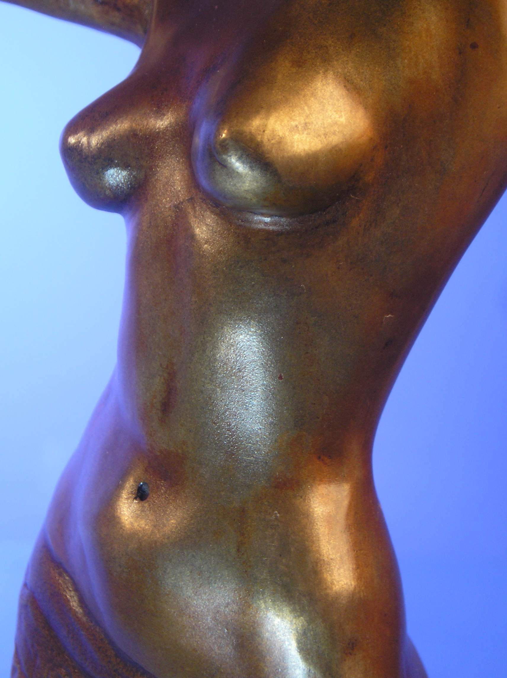 Eternia bronze sculpture b